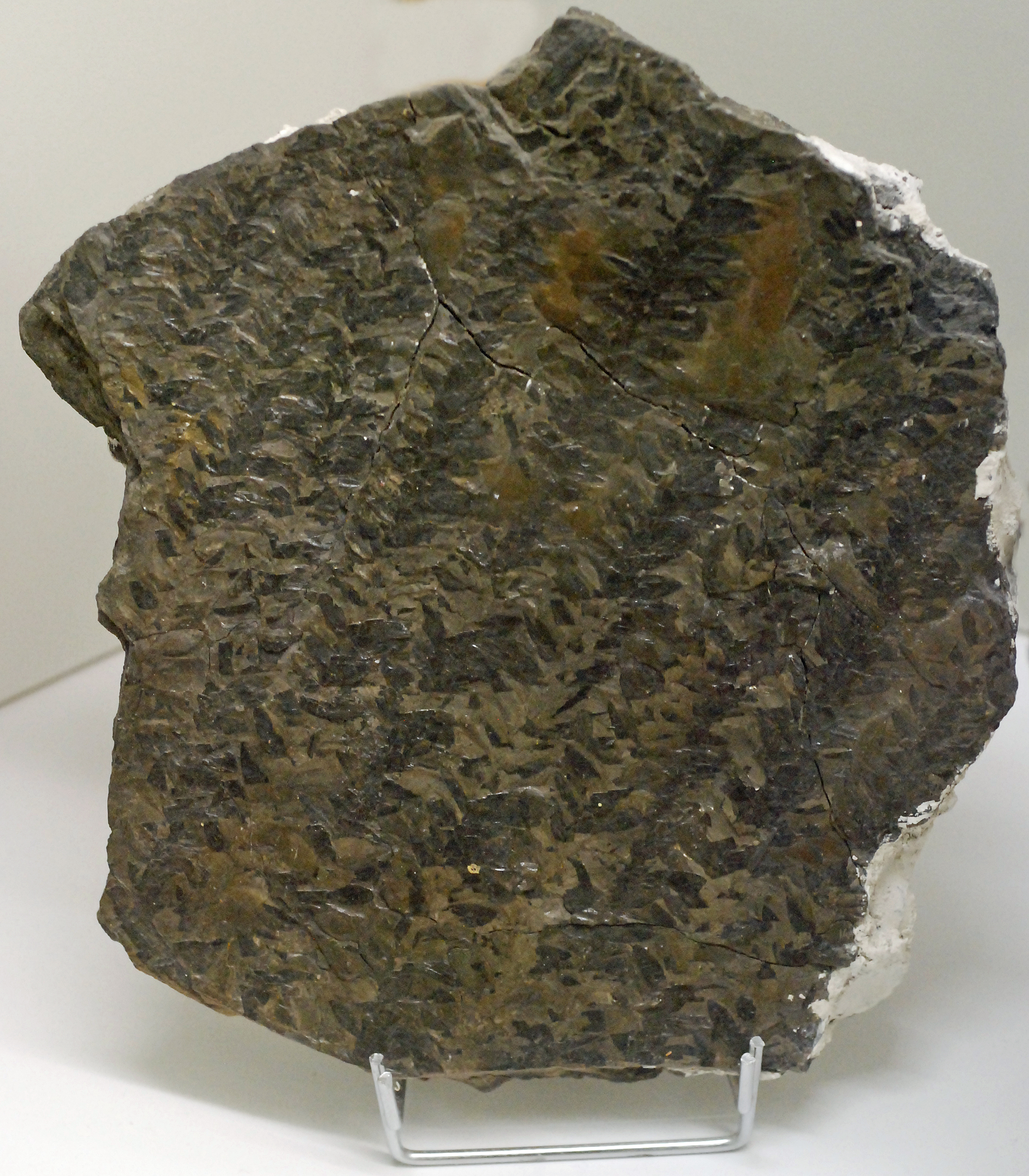 wq